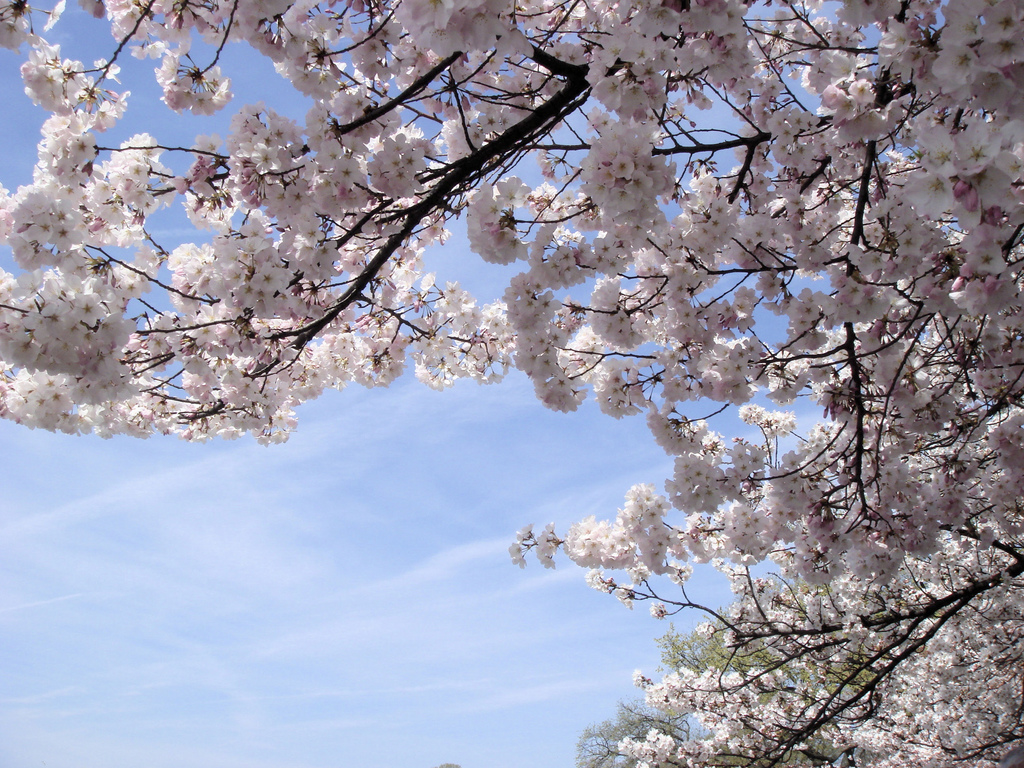 Cherry Blossoms in Washington D.C. during March